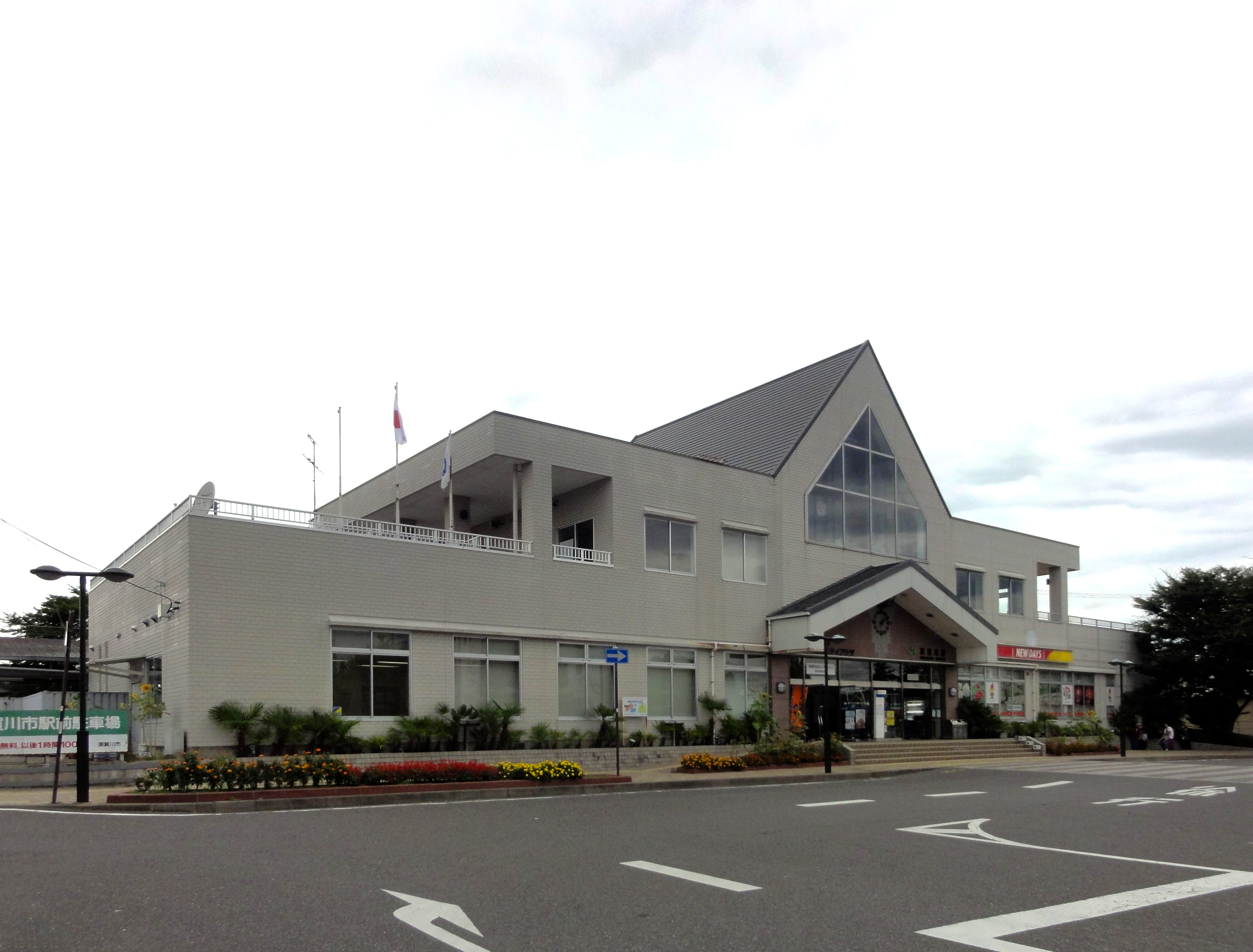 Sukagawa Station on the Tohoku Main Line in Fukushima Prefecture, Japan